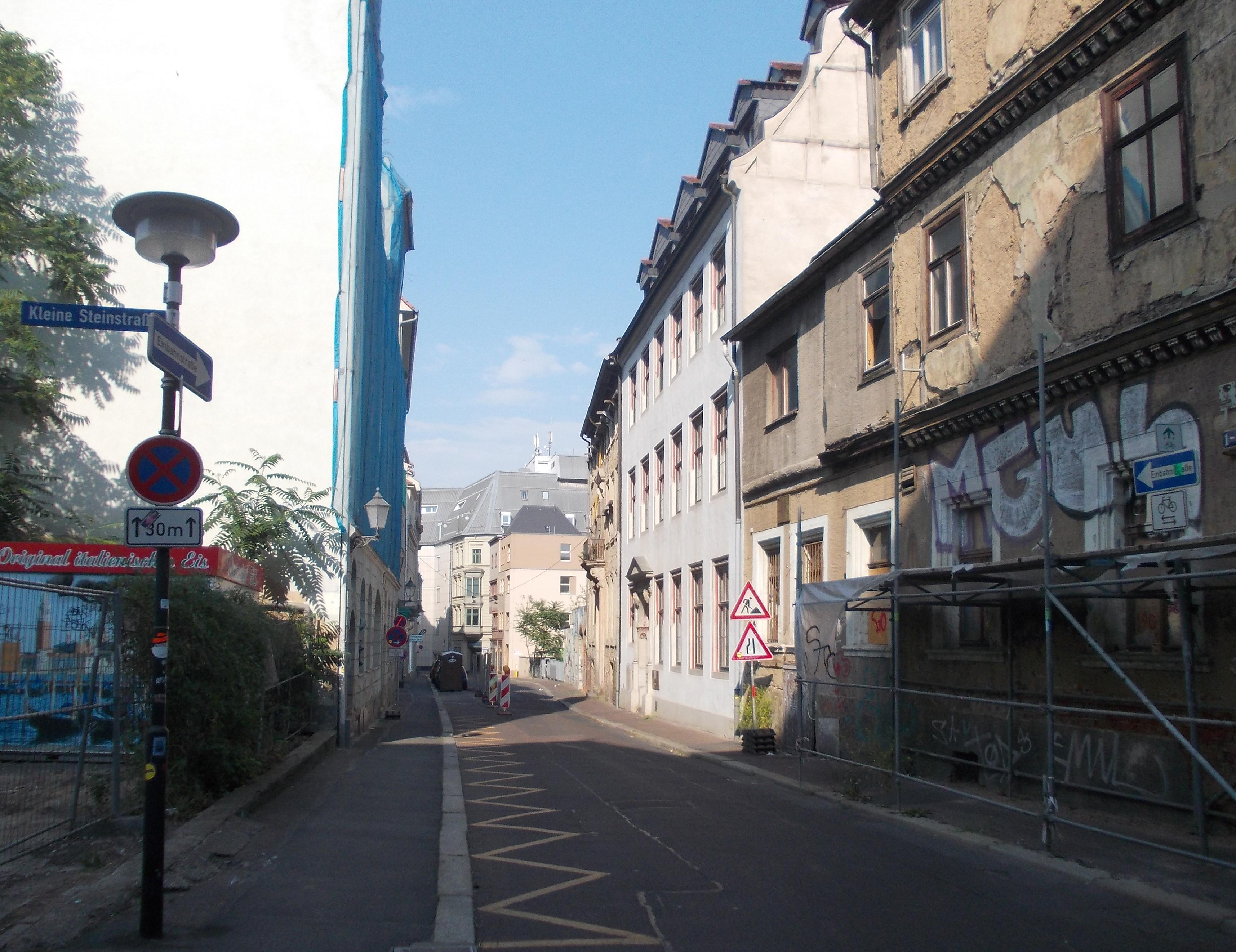 Brüderstrasse in Halle/Saale (Saxony-Anhalt)